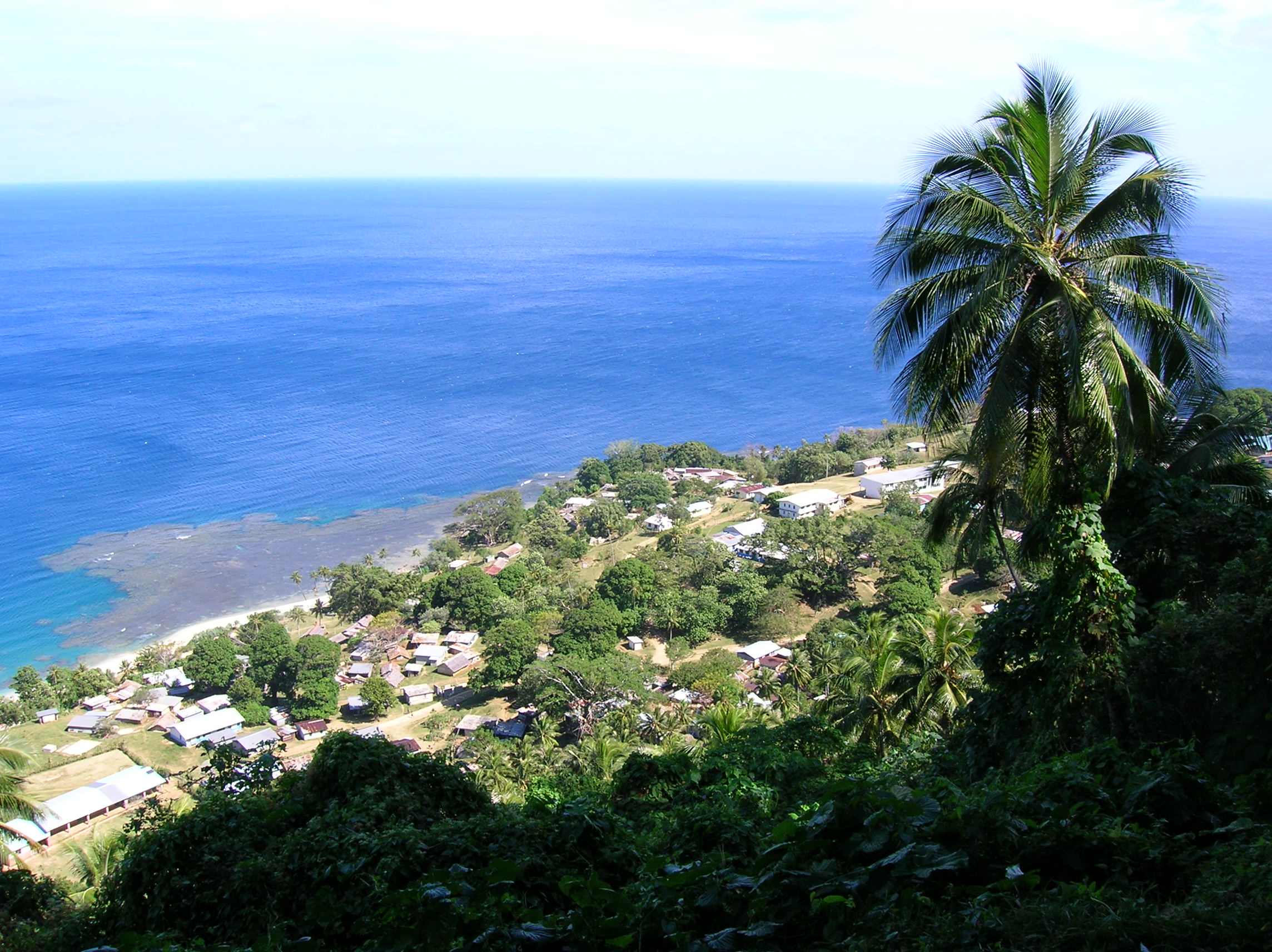 Melsisi village seen from above — on Pentecost Island, in Vanuatu.